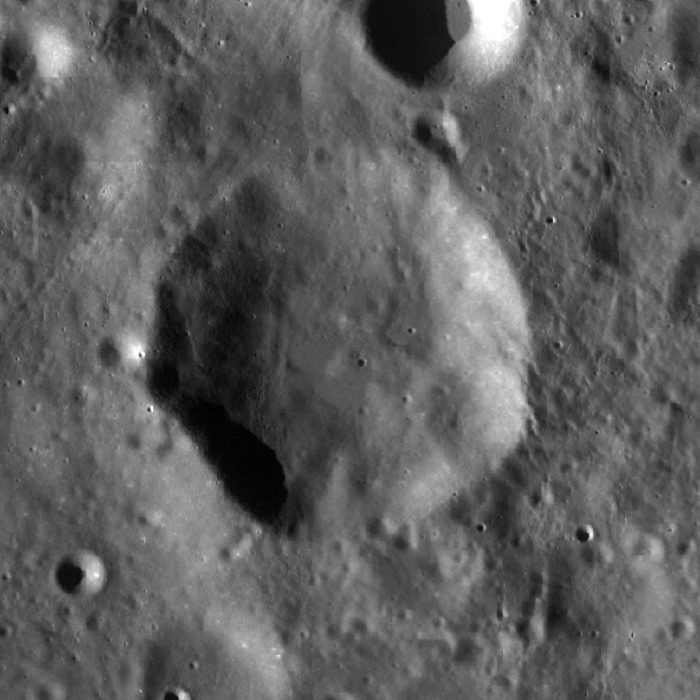 Steno crater, on the far side of the moon. LRO Wide Angle Camera mosaic.